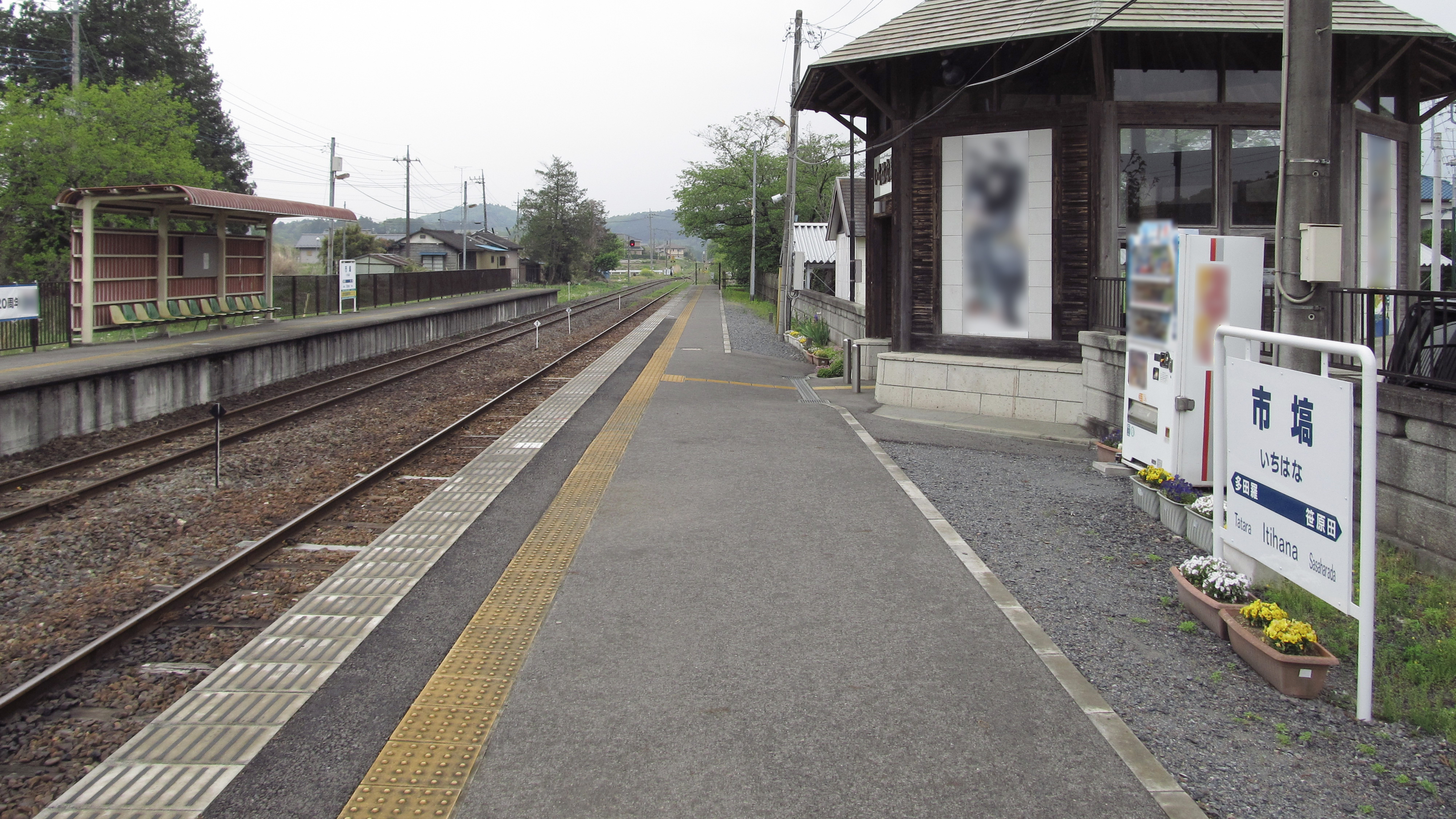 The platforms at Ichihana Station on the Mooka Railway Mooka Line in the Ichikai town, Tochigi prefecture, Japan